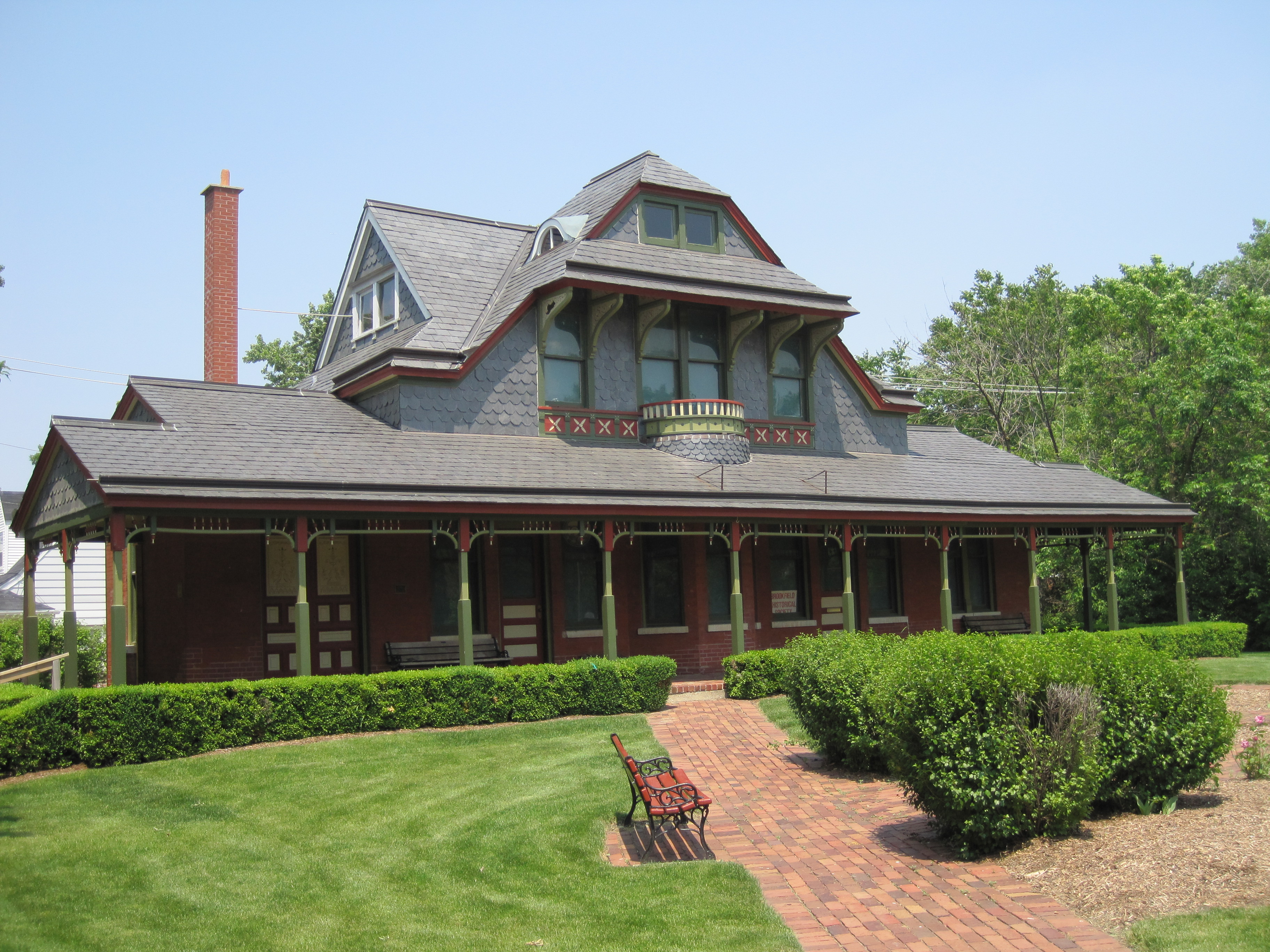 I (Teemu08 (talk)) took this image on June 7, 2011